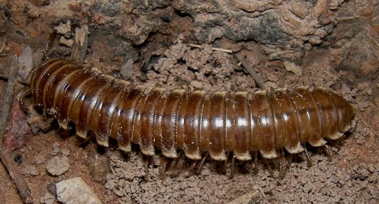 Live gomphodesmid millipede (Tymbodesmus falcatus) from Kou village, Burkina Faso. S. Tchibozo phot., 2011.